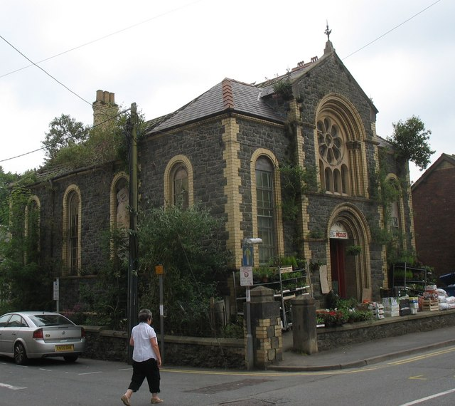 Capel Moreia, Lon Cilbedlam/Dale Street This Welsh Baptist chapel is in a dilapidated state, most of its roof has disappeared and bushes sprout out of its walls. Nevertheless, the foyer has found a new use as a fruit and veg shop, while the Baptist congregation still worship at the vestry at the back of the chapel.